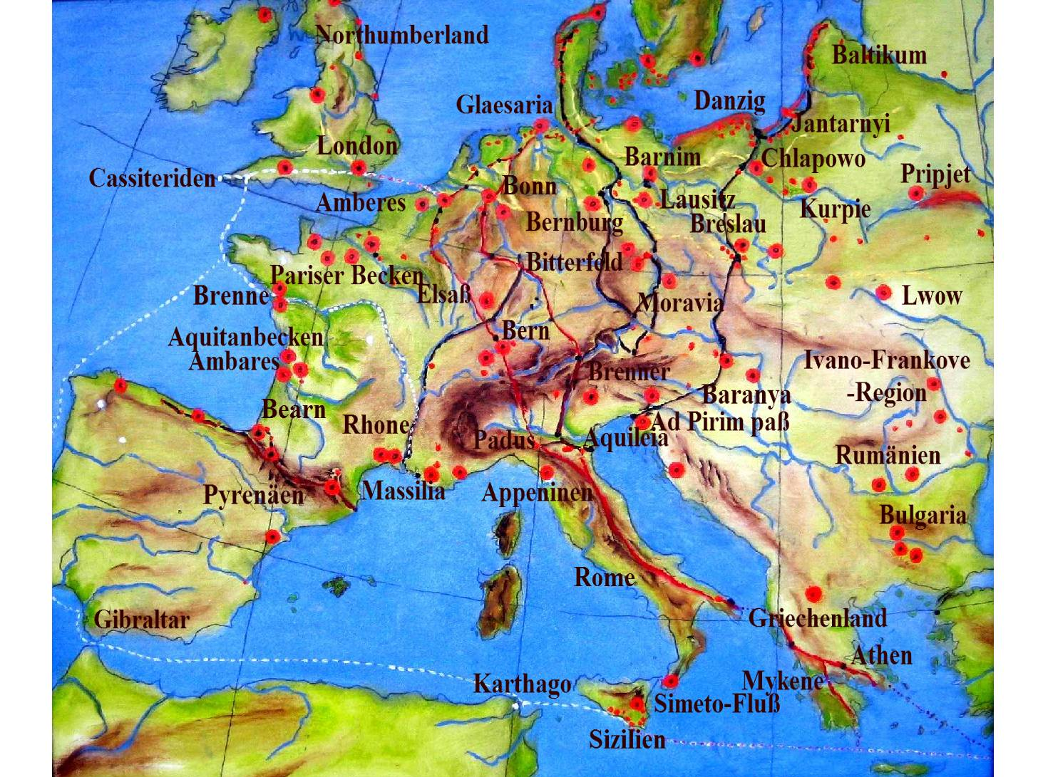 Author: Map created by Joannes Richter himself, Backnang Medium: Oilpainting, 60 x 50 cm with additional computer text Contents 1 Legend 2 Sources for tin and amber finding places 3 Licensing 4 Original upload log Legend Red dotted marks (large): Amber finding locations according to M. Ganzelewski und R. Slotta (ref. 1). Red dotted marks (small): Amber finding locations according to Christa Stahl (ref. 2). White dotted marks: Tin sources (Ref. 3) White lines: Tin routes (Ref. 4) Black lines: Historical amber routes (according to Ref. 2) Red lines: Additional amber routes according to "Burner"-names (Ref. 4) Blue lines: rivers Sources for tin and amber finding places 1. "Bernstein-Tränen der Götter" by M. Ganzelewski und R. Slotta (1997 edition, ISBN 3-7739-0665-X), a guide to professional amber technology in German language. 2. Mitteleuropäische Bernsteinfunde von der Frühbronze-bis zur Frühlatenezeit, Christa Stahl, Verlag: J.H. Röll 2006, ISBN 3-89754-245-5 Dissertation 2004, Philosophische Fakultät der Julius-Maximilian-Universität Würzburg. 3. Zinnvorkommen (Quelle: ) 4. “Der Brenner & Tuisc Codex”, Joannes Richter, Fischer Verlag, 2006, ISBN 978-3-8301-0965-2 Invalid ISBN